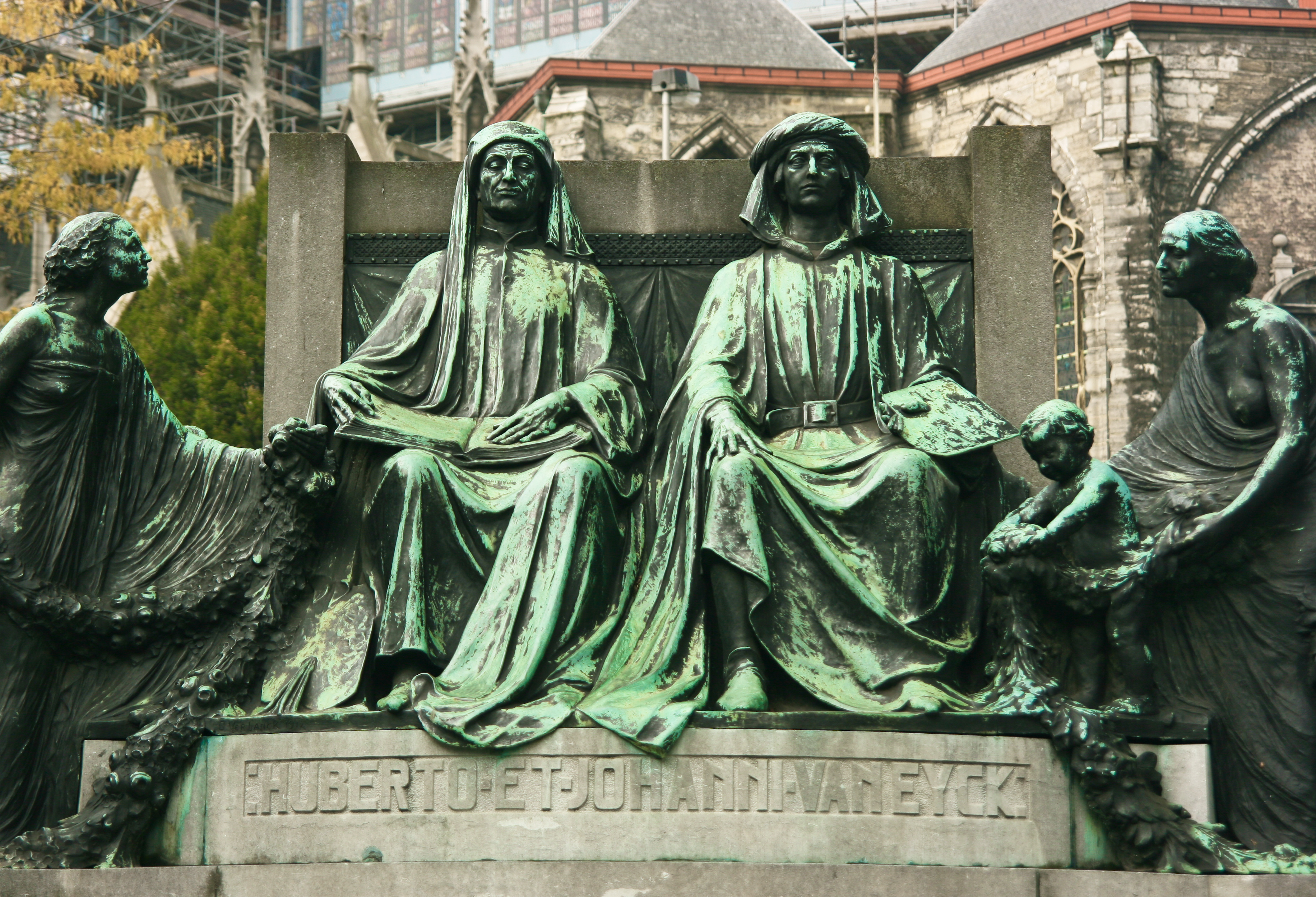 Detail of a statue of the Van Eyck brothers in Ghent, Belgium. The plaque reads, “Huberto et Johanni van Eyck.”